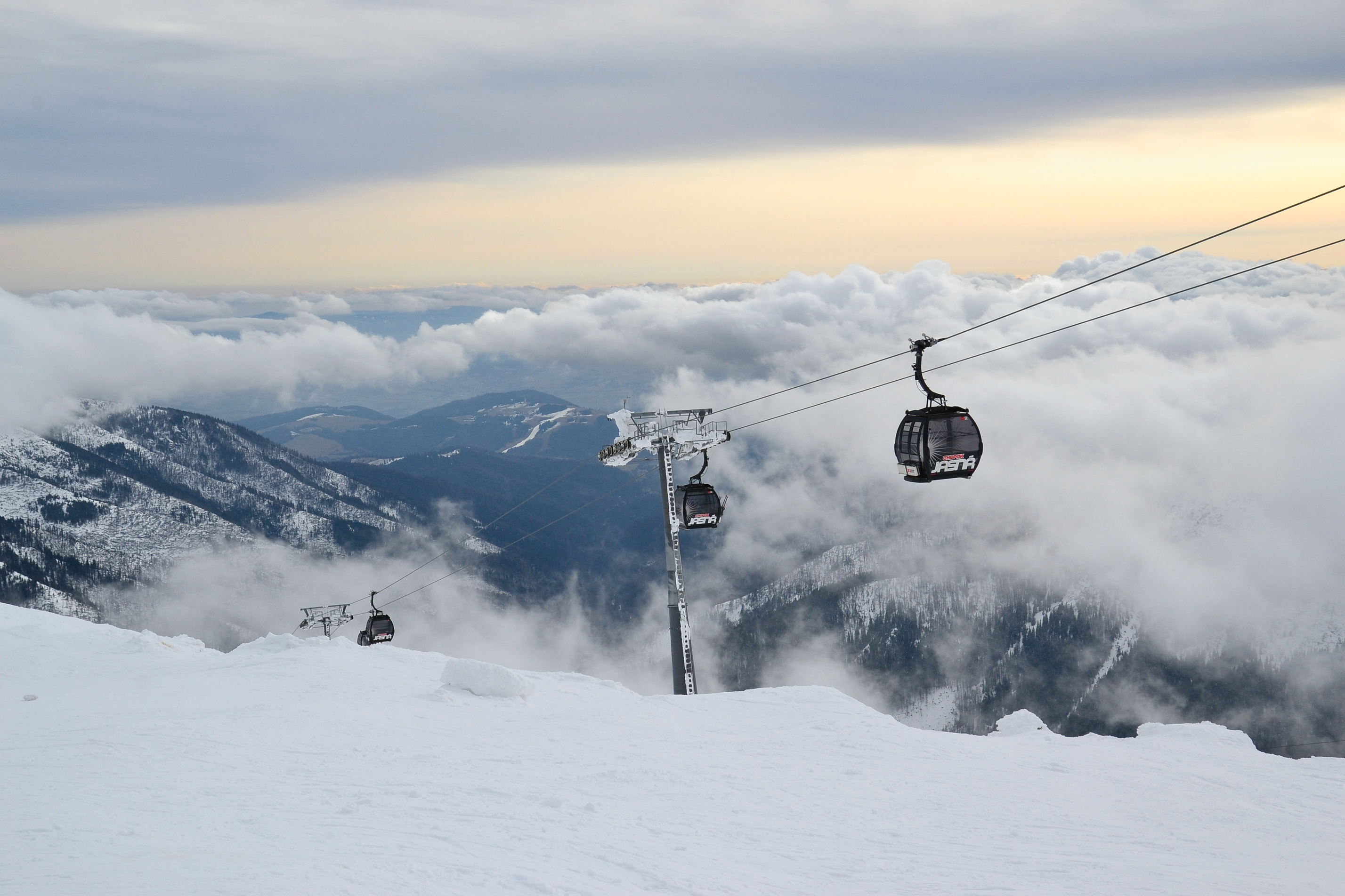 Jasná Ski Resort, Slovakia - gondola lift Kosodrevina - Chopok